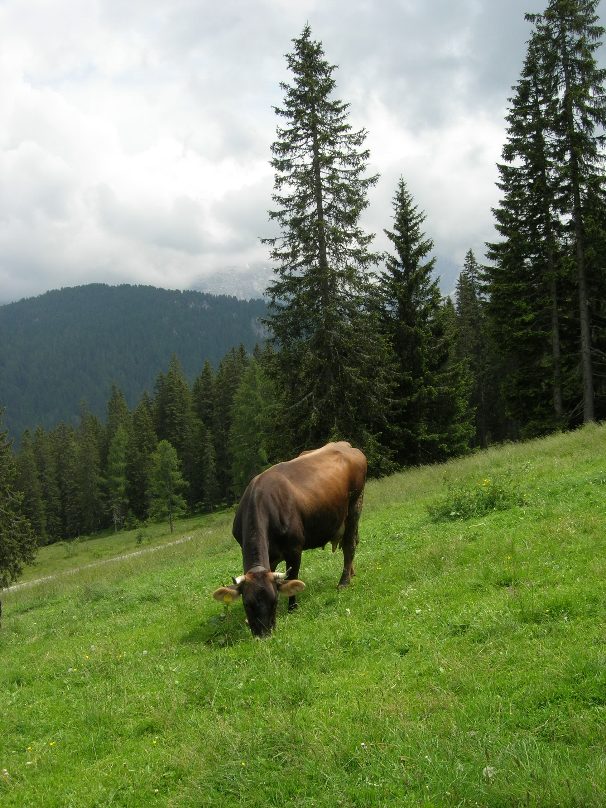 Rendena cattle breed